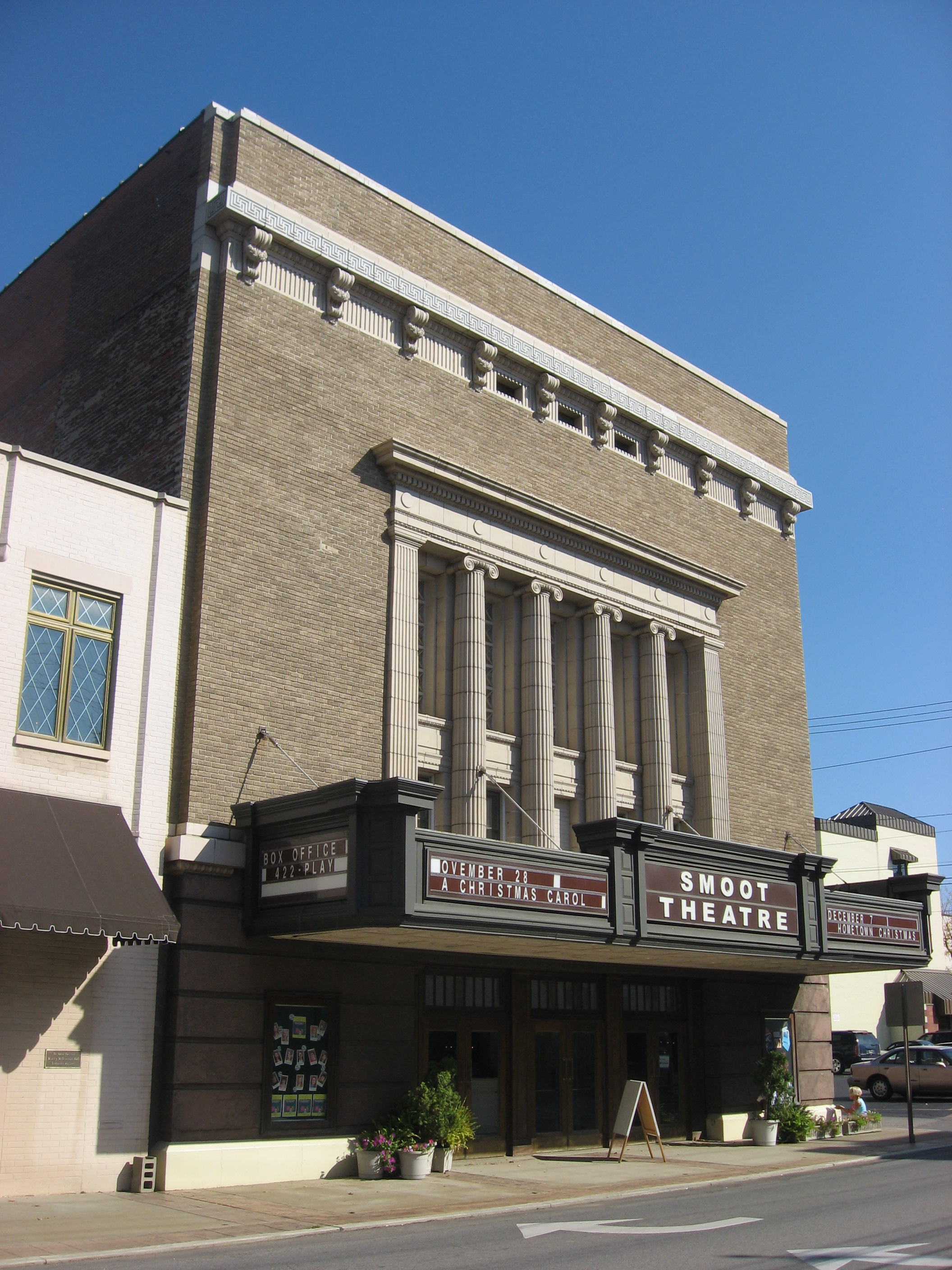 Front of the Smoot Theater, located at 213 Fifth Street (West Virginia Route 14) in Parkersburg, West Virginia, United States. Built in 1926, it is listed on the National Register of Historic Places.